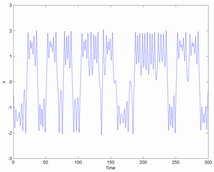 Intermittent chaotic jumping between the two potential wells in the periodically driven Duffing oscillator. The dynamics is given by x +fx' - Kx + x^3 - Asin(t/p)=0, with parameters f=0.1, K=2, A=0.4, p=0.6.